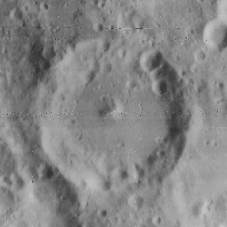 Rheita crater, on the moon. Horizontal rows of dots are present on original.